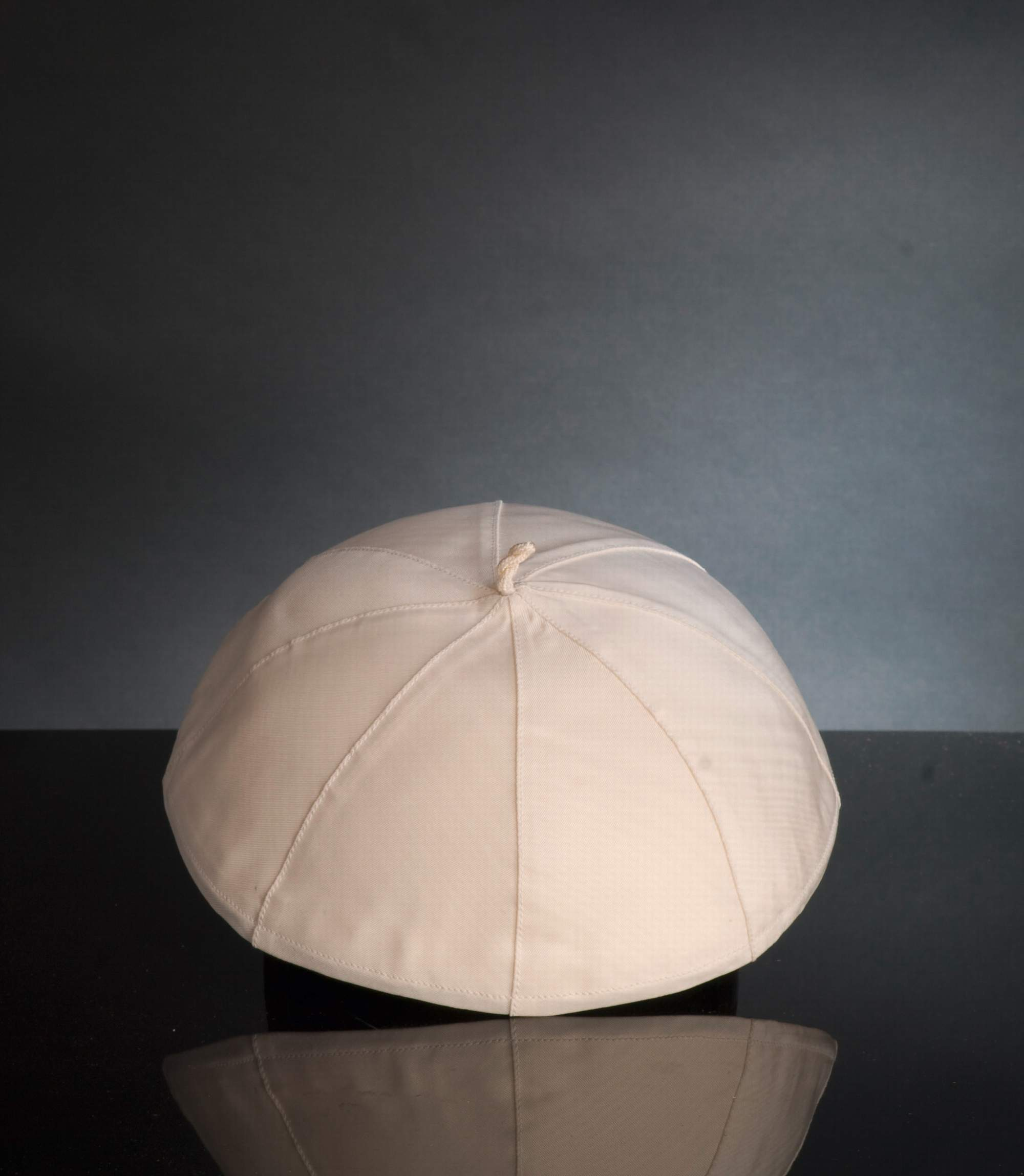 Soli Deo, Zucchetto, Pileolus, skull-cap in white silk worn by the Pope